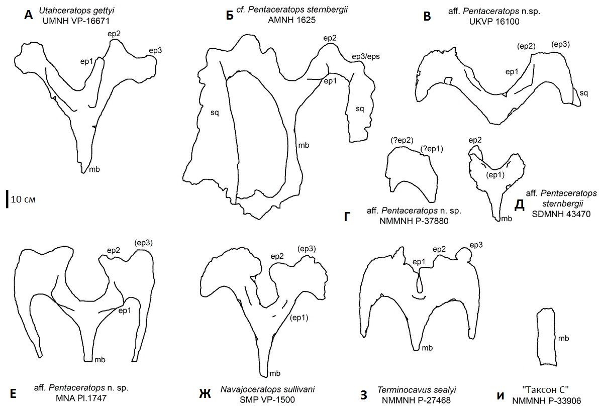 Parietal relative sizes among specimens of Pentaceratops, and related chasmosaurines. Parietals of chasmosaurine taxa mentioned in the main text, all in dorsal view and to scale with each other to show relative size. Taxa shown in stratigraphic order (with the exception of (E), SDMNH 43470). (A) Utahceratops gettyi referred specimen UMNH VP-16671; (B) cf. Pentaceratops sternbergii referred specimen AMNH 1625. Aff. Pentaceratops sp. referred specimens (C) UKVP 16100; (D) NMMNH P-37880, and (F) MNA Pl. 1747; (E) Aff. Pentaceratops sternbergii referred specimen SDMNH 43470; (G) Navajoceratops sullivani holotype SMP VP-1500; (H) Terminocavus sealeyi holotype NMMNH P-27468. (I) Chasmosaurinae sp. “Taxon C” specimen NMMNH P-33906. ep, epiparietal loci numbered by hypothesized position (no epiossifications are fused to this specimen); mb, median bar. Line drawings adapted from Longrich (2014), and Sampson et al. (2010). Scalebar = 10 cm.